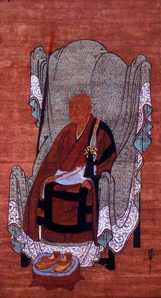 Zen Master Enni Ben'en